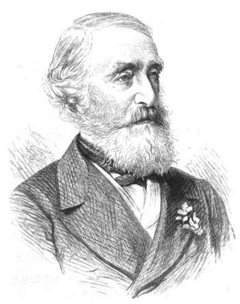 Picture of George Scrope, the noted English geologist